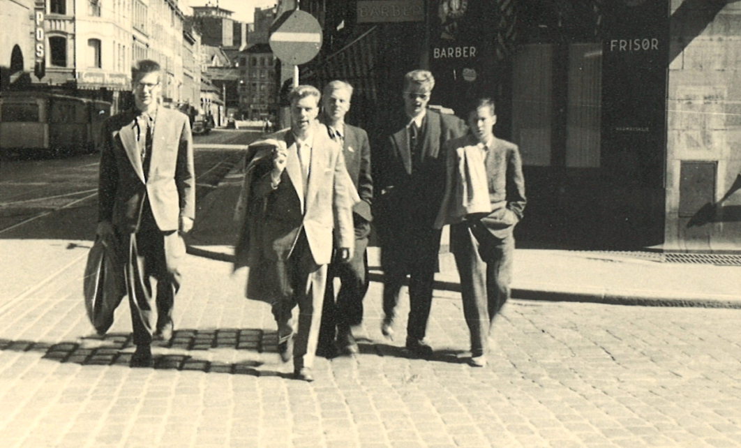 Young Finnish swimmers in Oslo, attending a youth swimming camp. From left to right: Gustav Bredenberg, Nils Kihlman, Kai Hagelberg, Karri Käyhkö, Stig-Olof Gremmer.